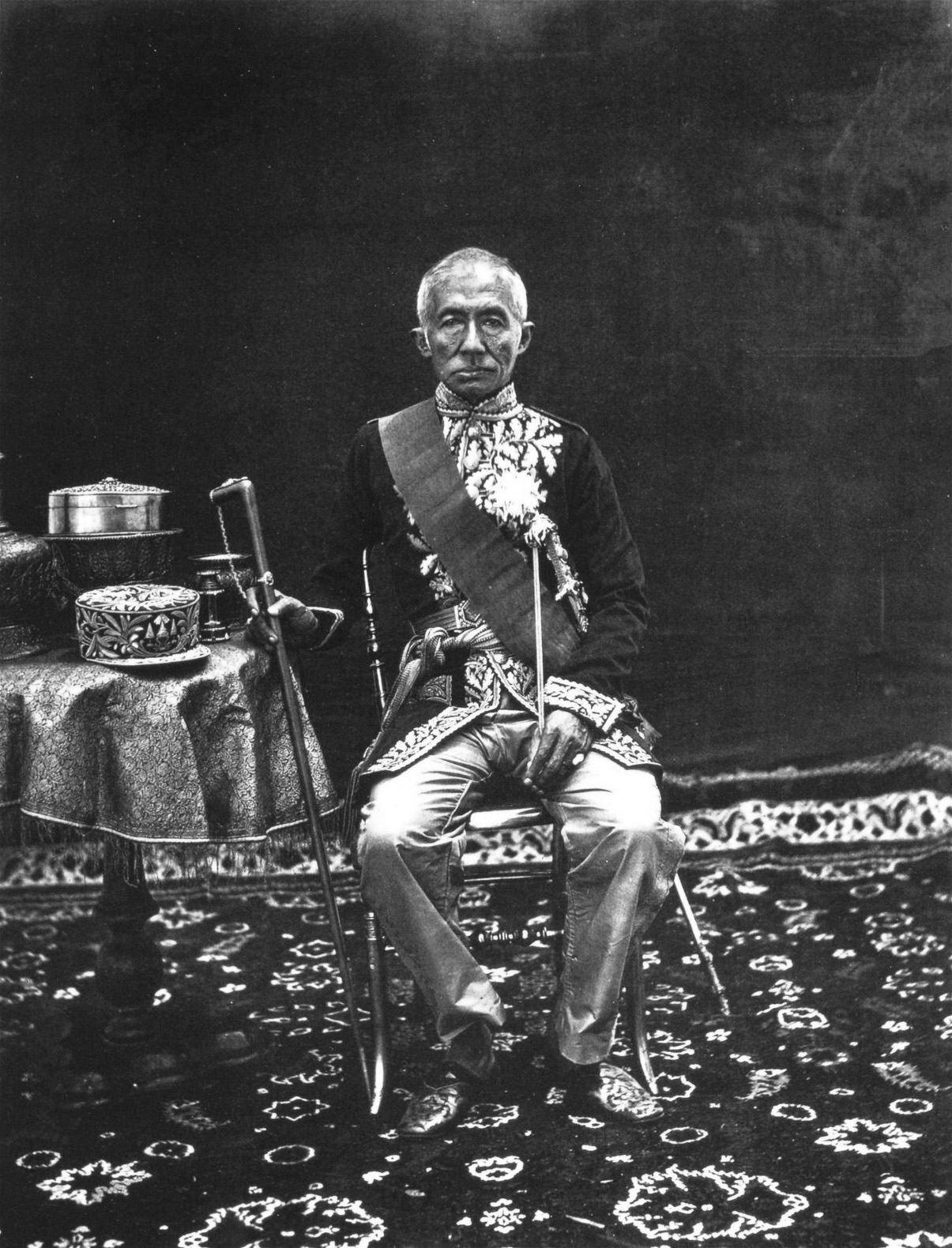 King Mongkut of Siam, Bangkok (European Dress), 1865 - 1866. Original version: Modern albumen print from wet-collodion negative, by John Thomson. Current version: unknown medium